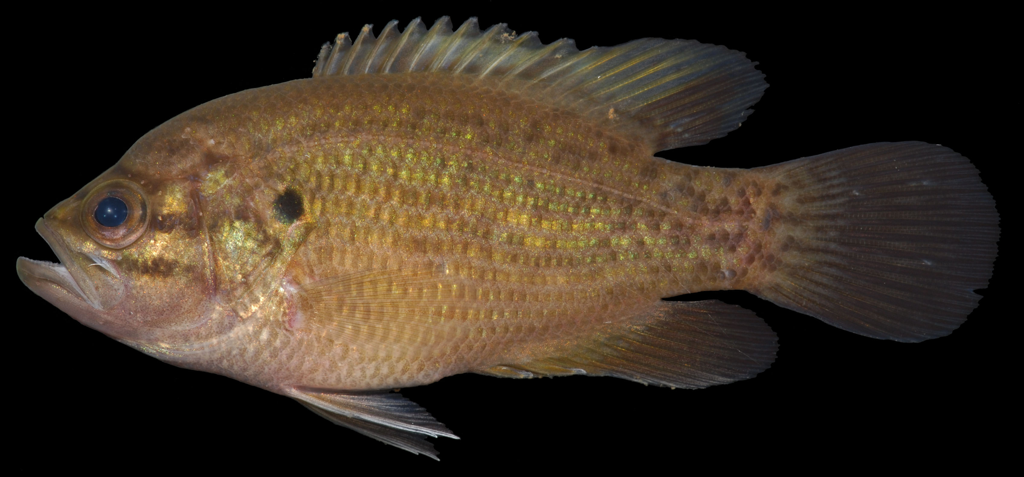 Mud Sunfish, Acantharcus pomotis. Loretto Branch, Manokin River, Somerset County, MD - 10/16/17. Photo by Robert Aguilar, Smithsonian Environmental Research Center.